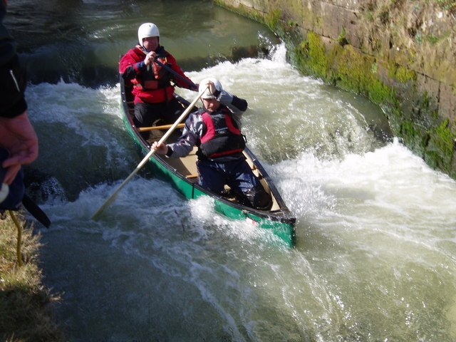 Disused lock - River Rother. Canoeing through a disused lock on the River Rother. We capsized shortly after the photograph was taken!